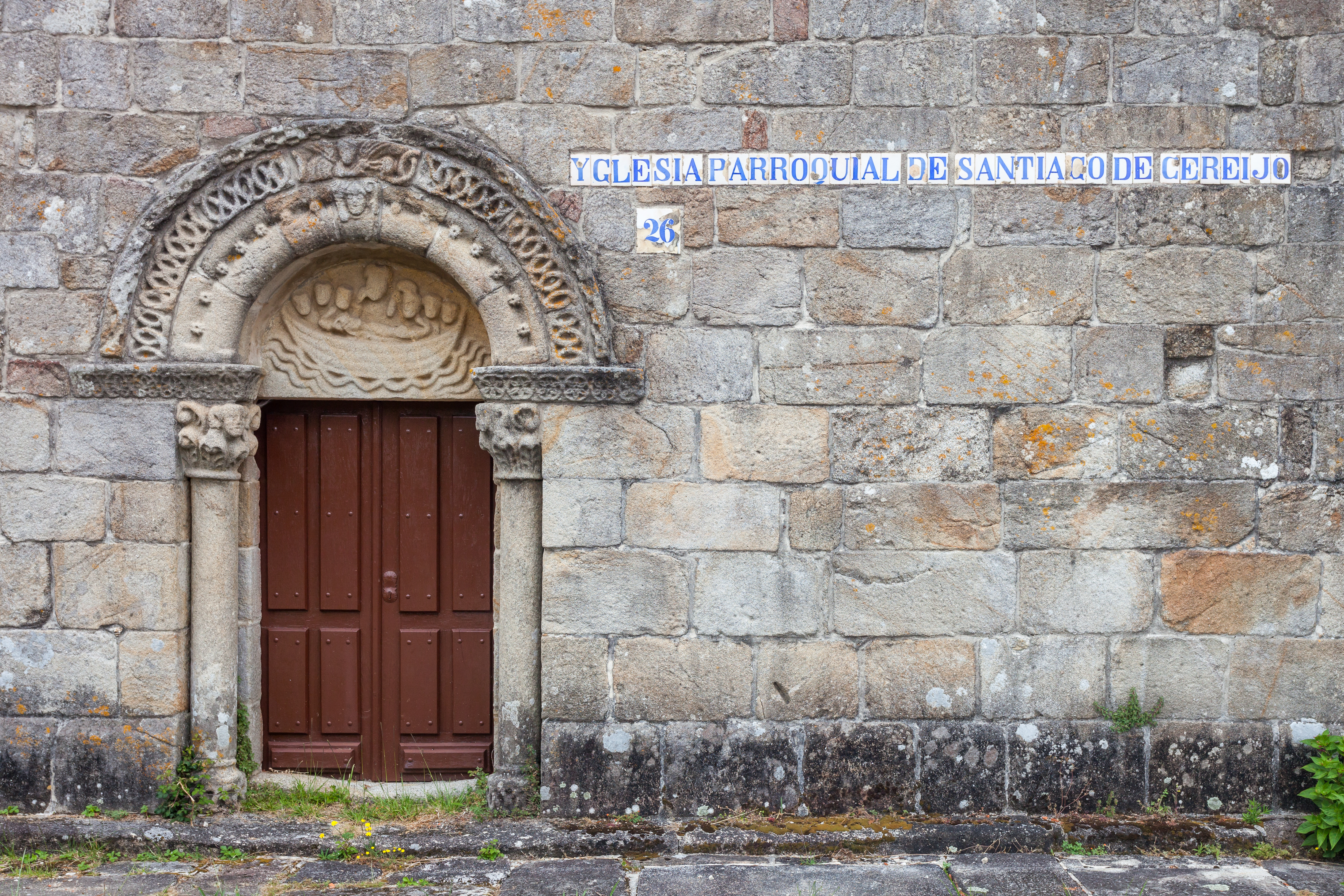 Portal of the church of Santiago de Cereixo, Vimianzo, Galicia (Spain).